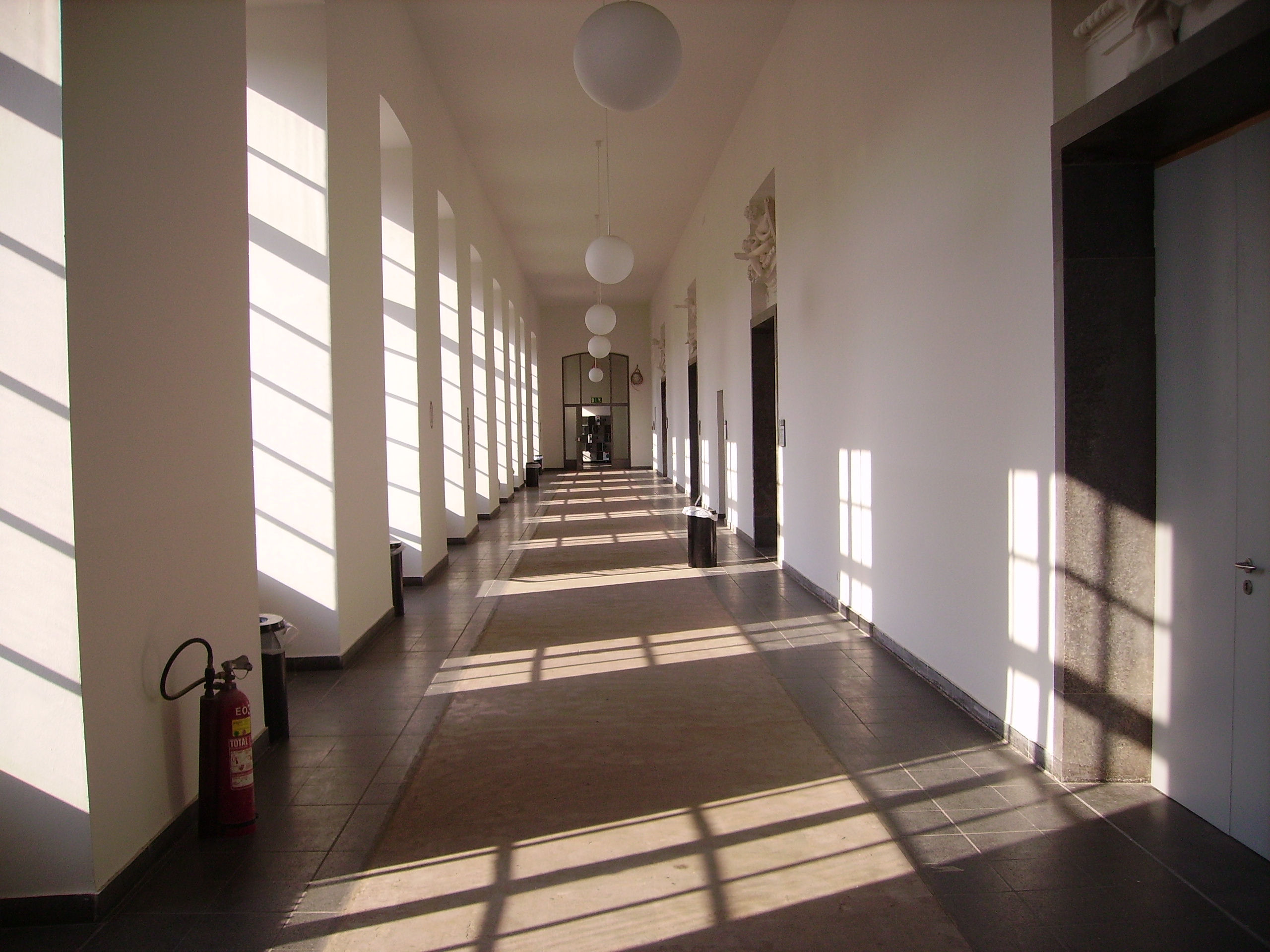 view of Mannheim castle, Germany